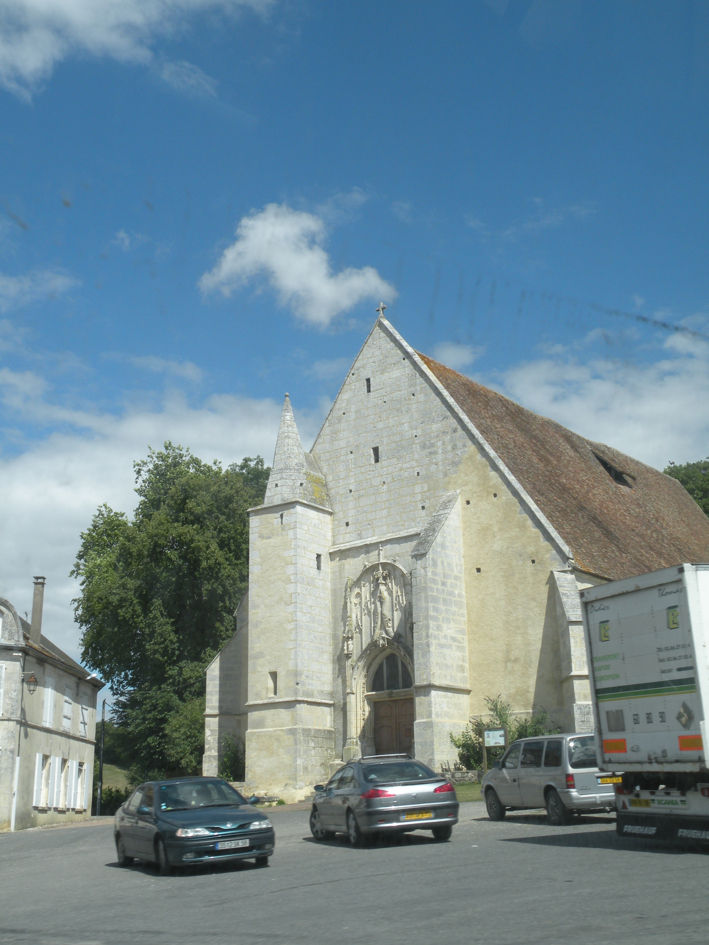 Church of Dampierre-sous-Bouhy